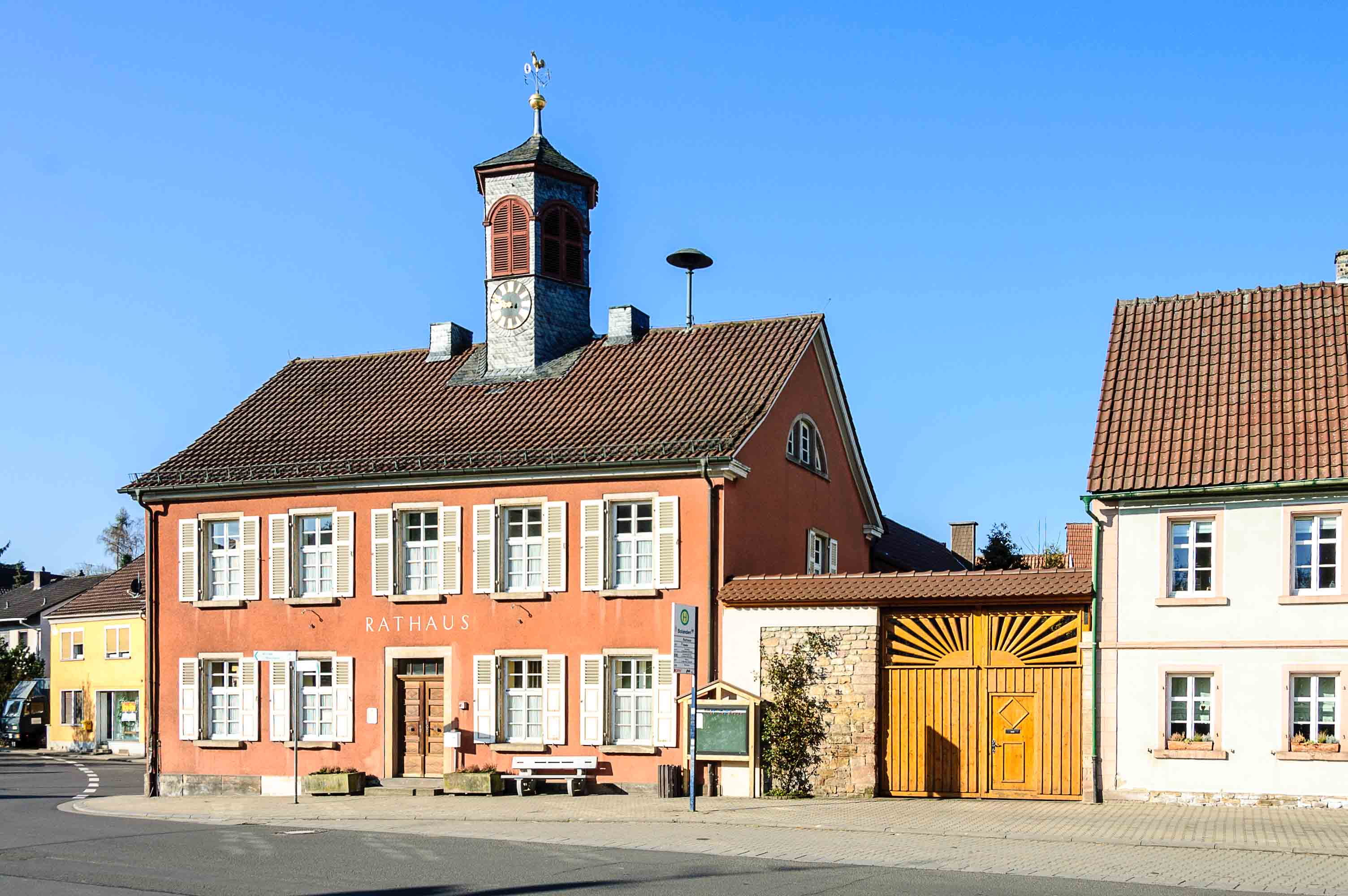 Townhall of Bolanden